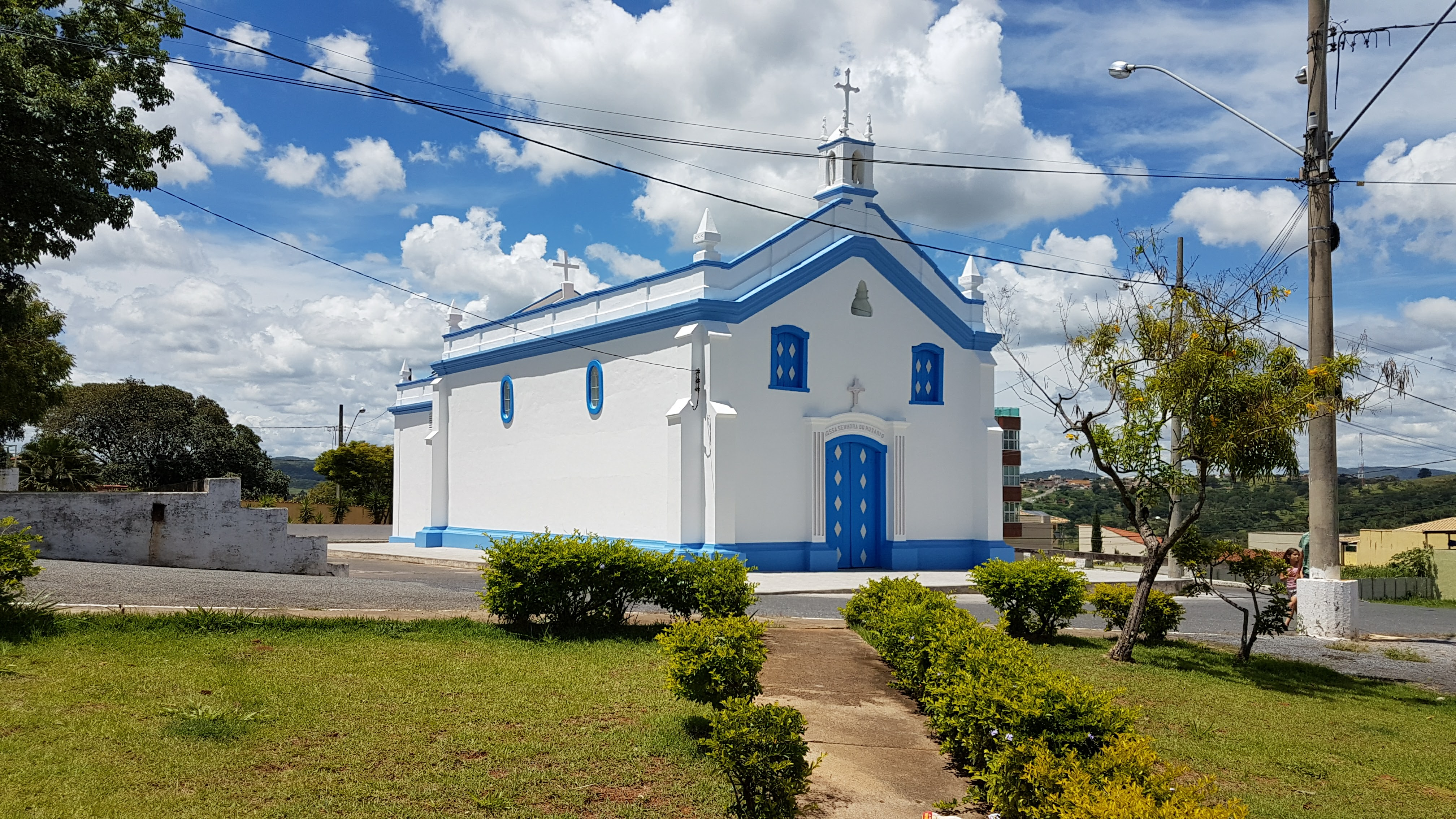 Church of Our Lady of the Rosary, Itauna, Minas Gerais, Brazil